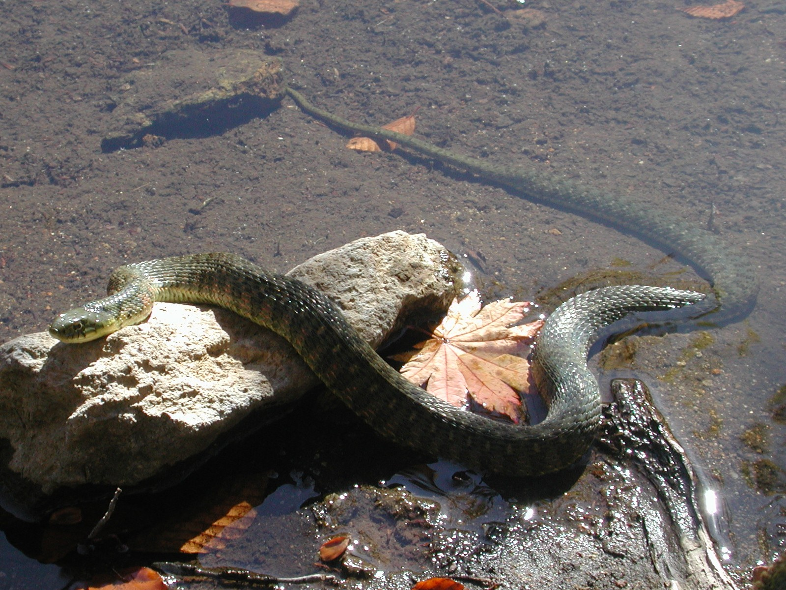 Rhabdophis tigrinus.